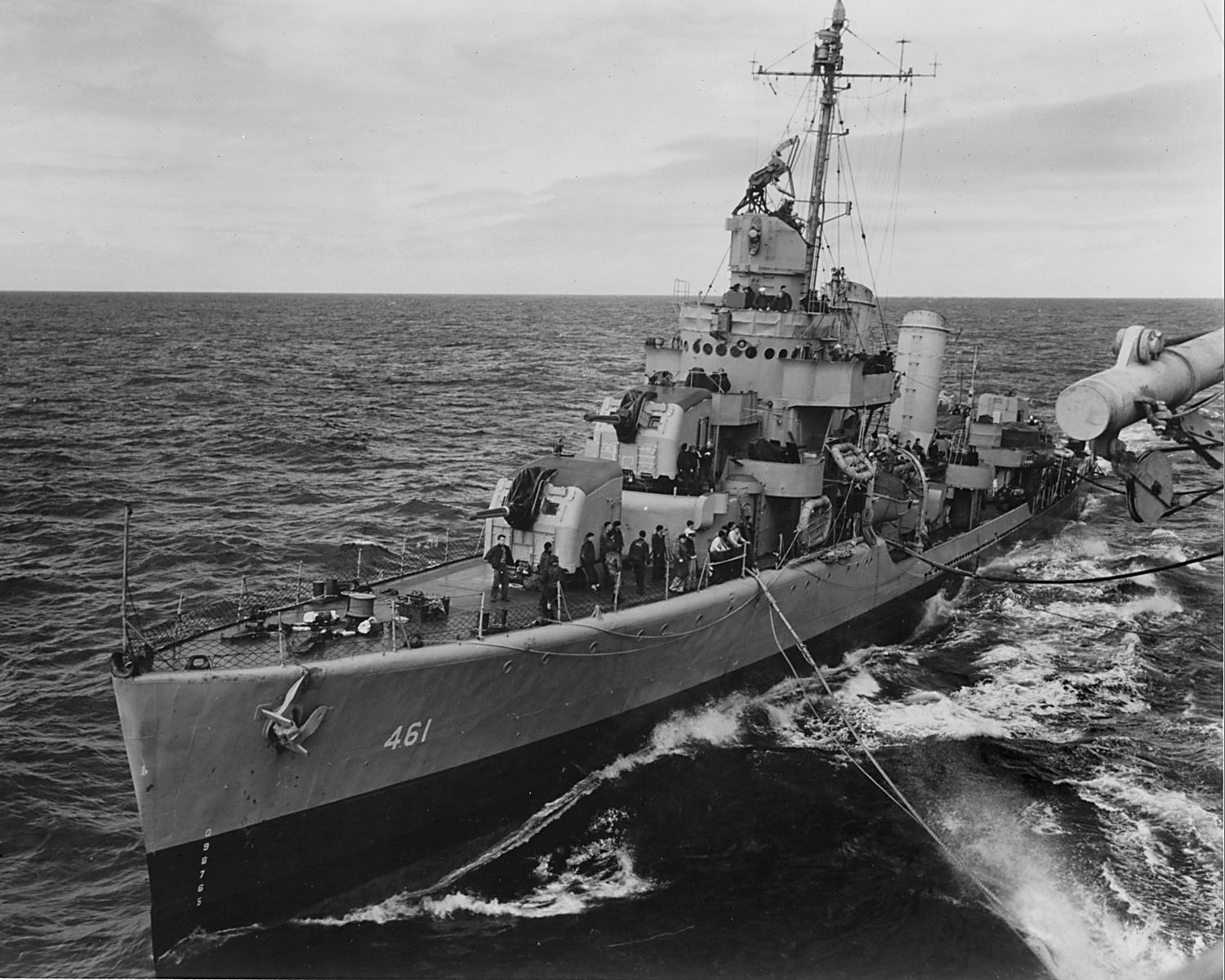 Photo #: 80-G-383847 USS Forrest (DD-461) alongside USS Guadalcanal (CVE-60) for refueling, 20 February 1944. Photographed from on board Guadalcanal. Port bow surface view, seen from about the height of the top of Forrest's pilothouse. She is painted in a horizontal two-tone camouflage, probably Measure 22.